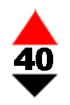 Bristol 40 sailboat's sail badge